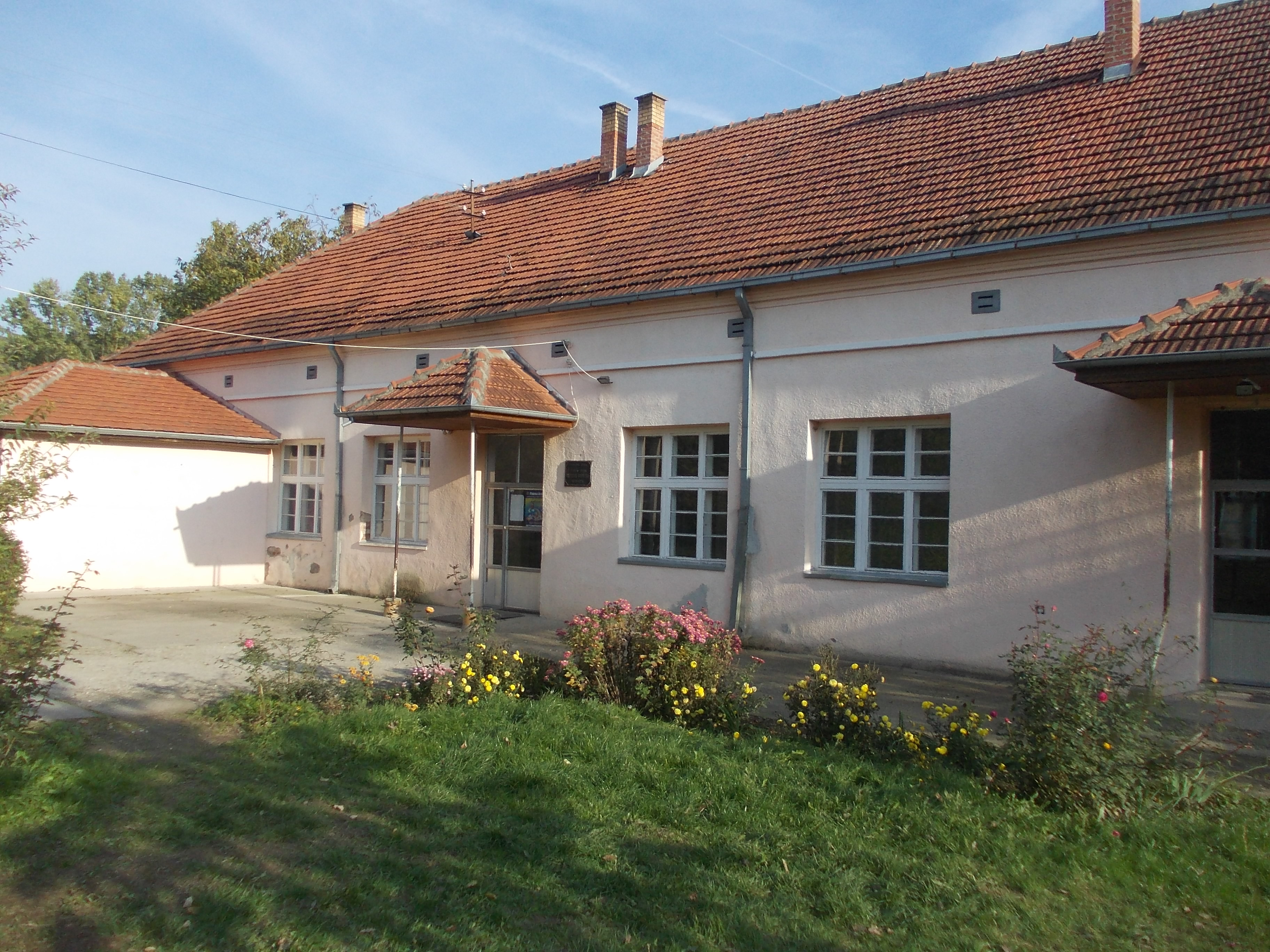 Osnova škola "Radislav Nikčević" u Kolaru